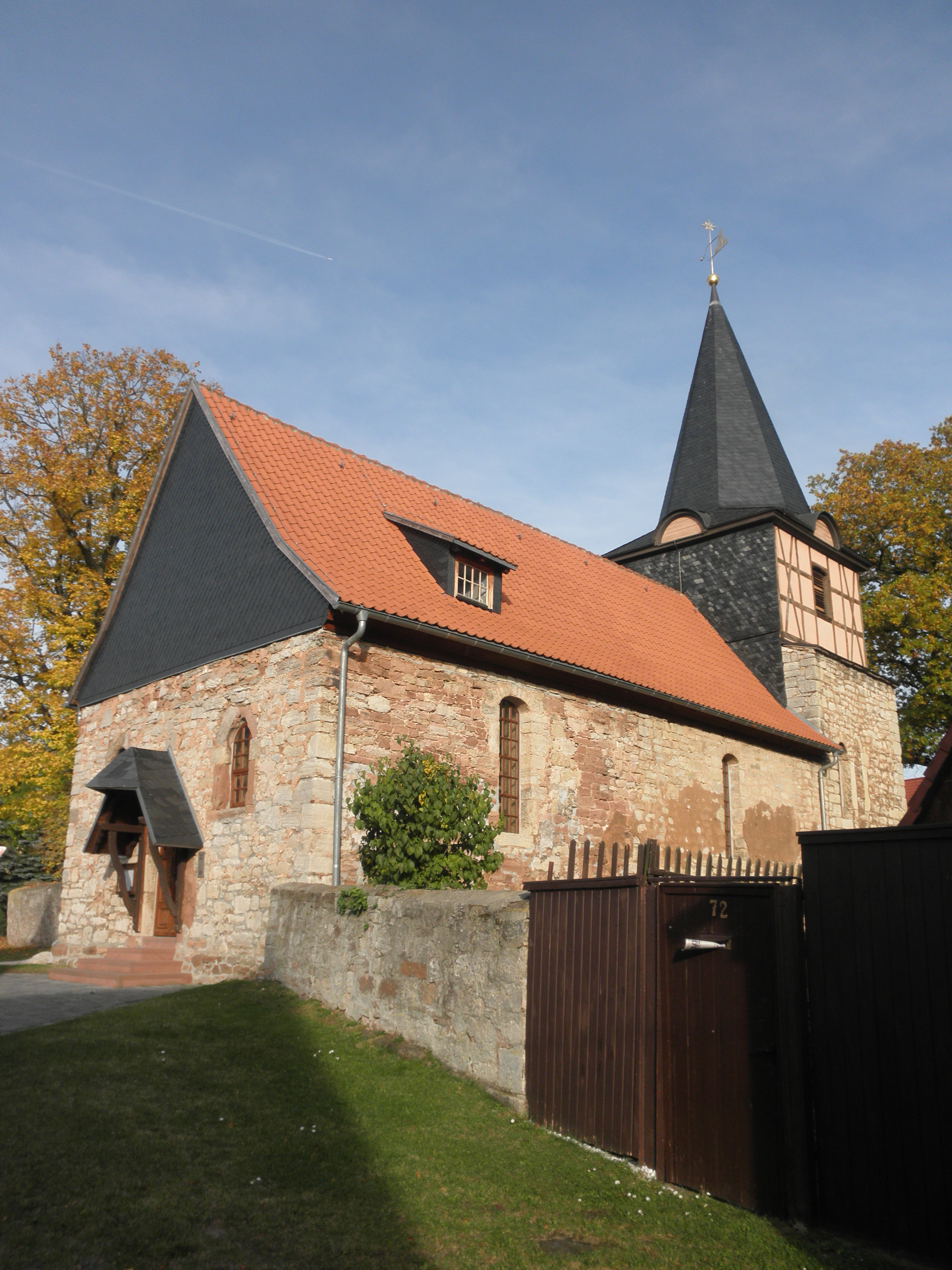 Church in Rüxleben (Kleinfurra) in Thuringia